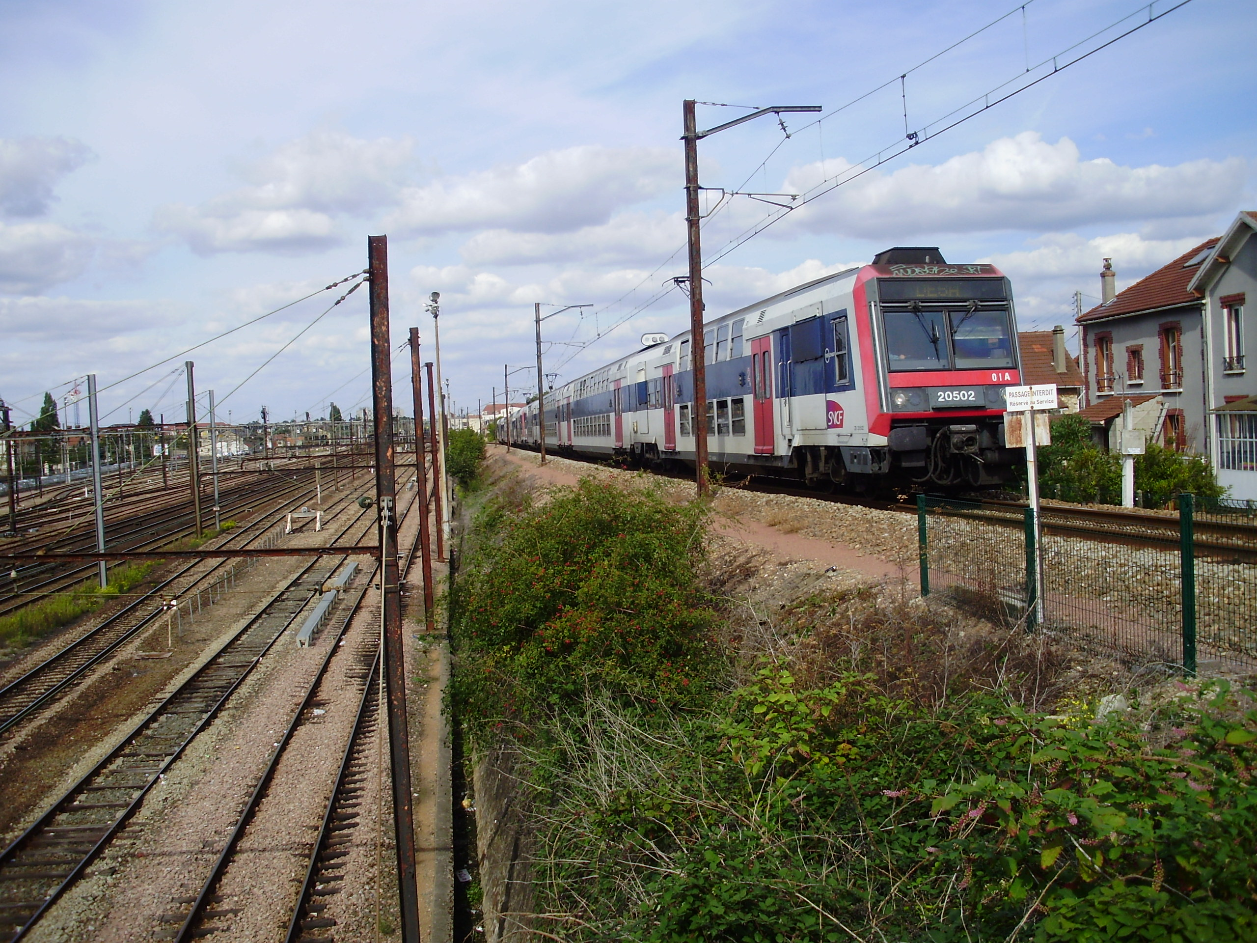 Brétigny station, in Brétigny-sur-Orge, Essonne, France (train going to the Dourdan-la-Forêt station, near the level crossing number 23 situated about 800 m south of the station, before crossing the Main lines tracks to Étampes wich are below on the left)